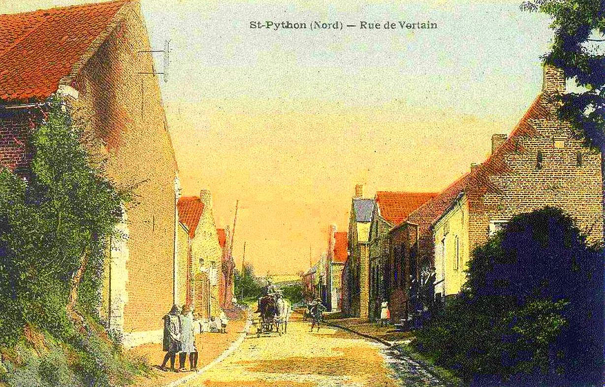 Rue de Vertain is photographed at the height of N ° 5 bis. It is shortly after the intersection of the Rue de la Paix (Rue Delattre of the time). On the left Manet farm built in 1877. 1st house on the right, the current N ° 2 whose staircase has changed shape and orientation.